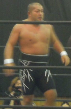 Japanese professional wrestler, Tomohiro Ishii. Nov 20 2011 NJPW Tatebayashi.